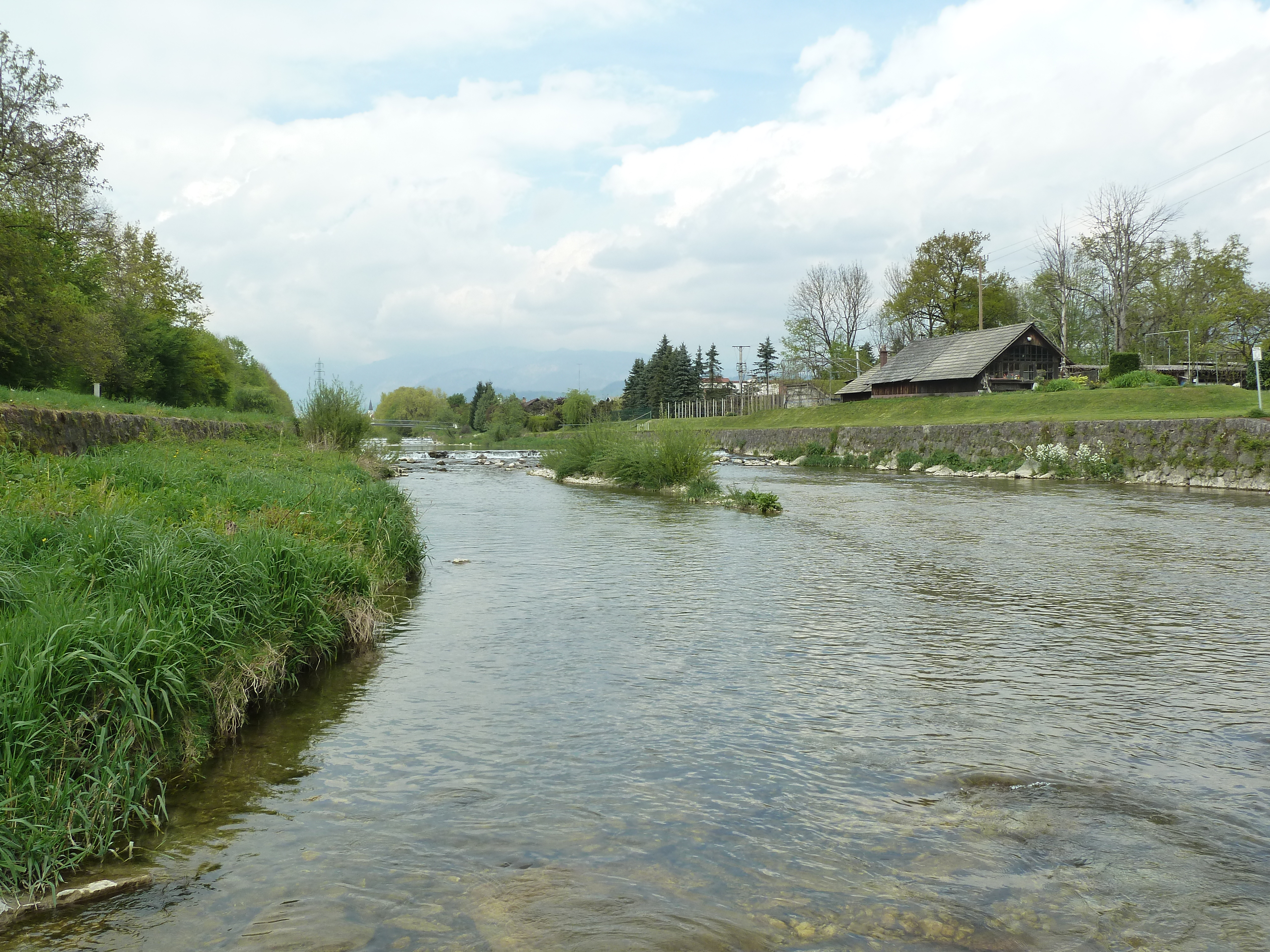 Kamniška Bistrica River at Domžale